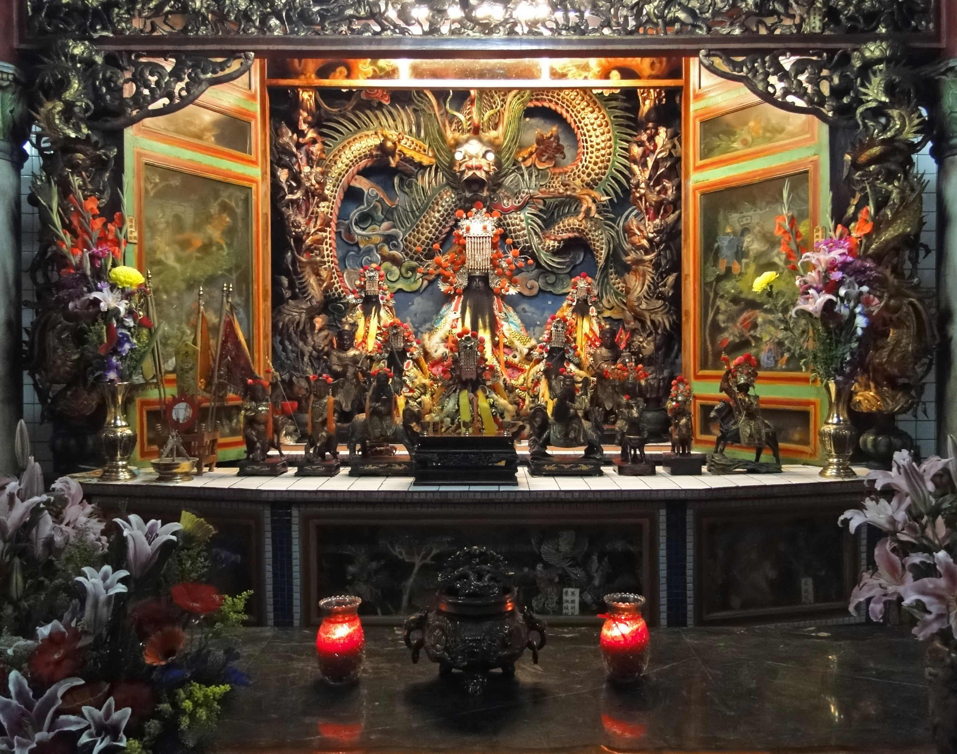 Interior of a taoist temple in Shuangxi District, Taiwan